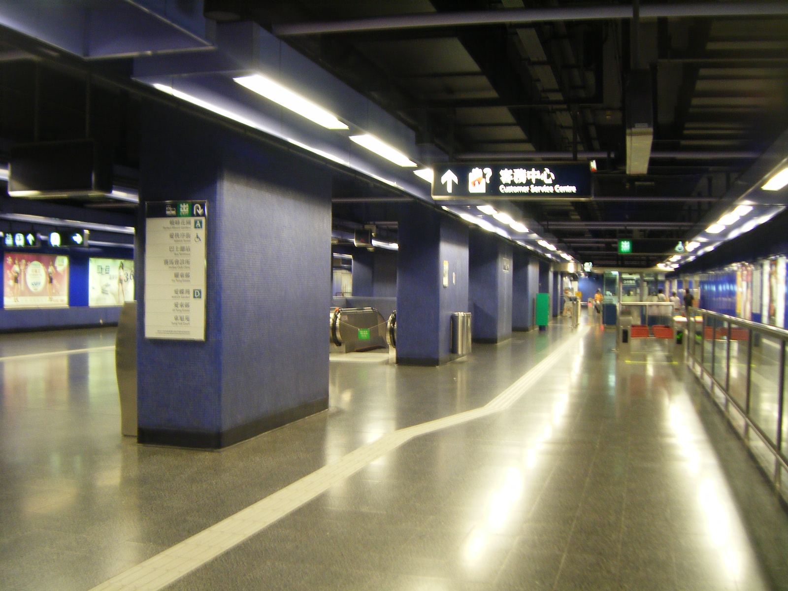 MTR Shau Kai Wan Station Concourse